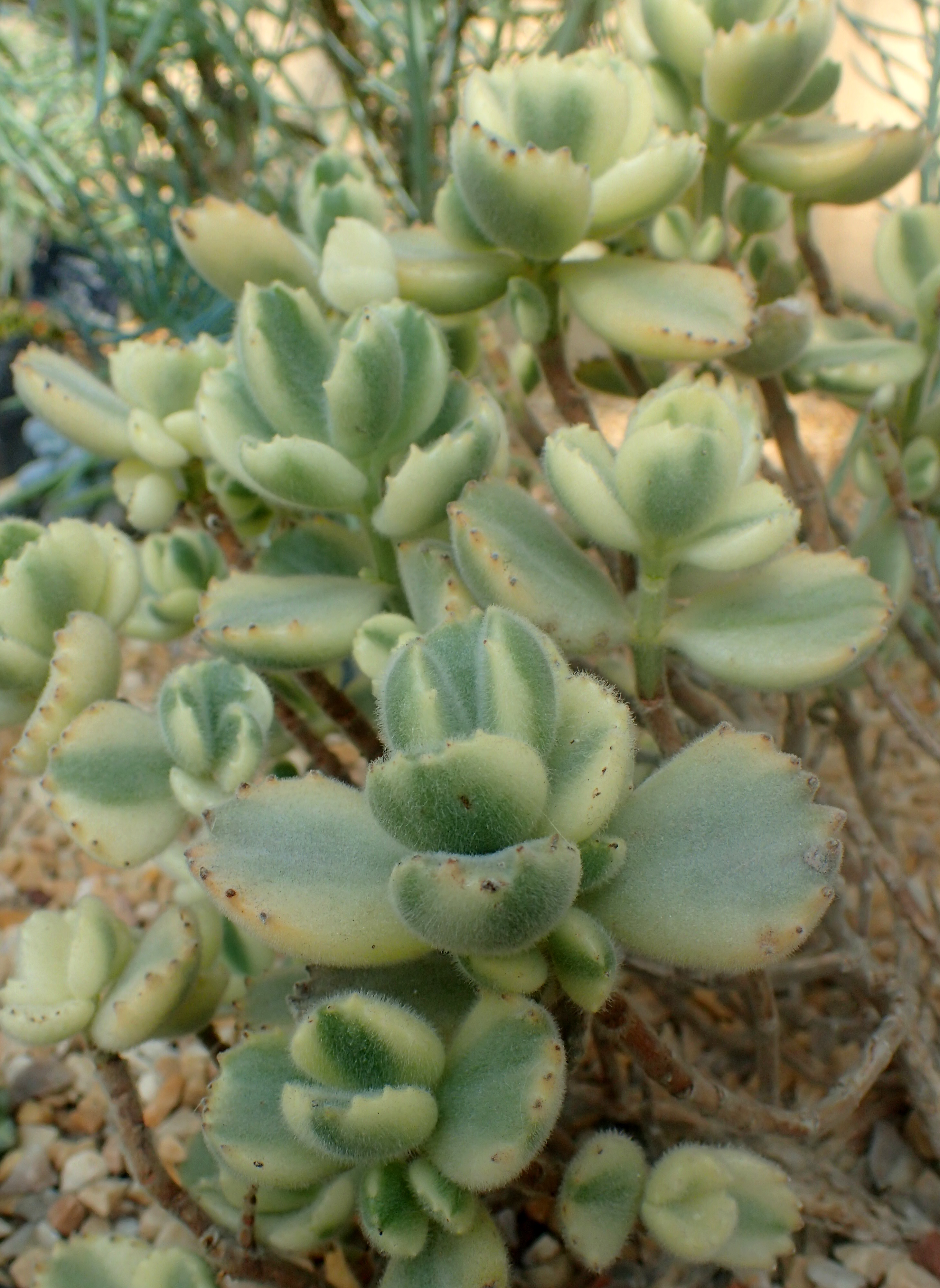 Cotyledon tomentosa subsp. ladysmithiensis at Garfield Park Conservatory